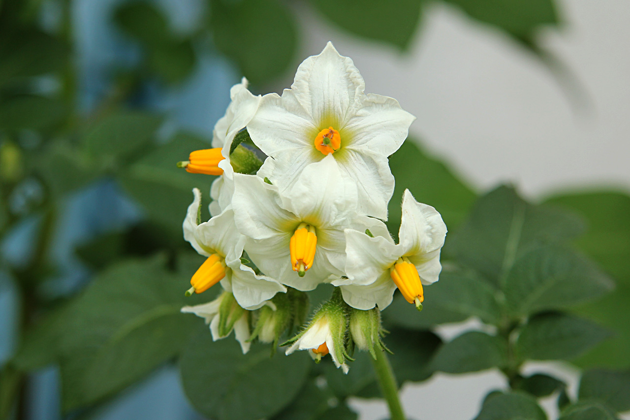 Potato blossom